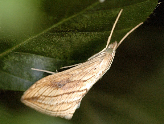 Picture taken in Commanster, Belgian High Ardennes . Species: Evergestis forficalis